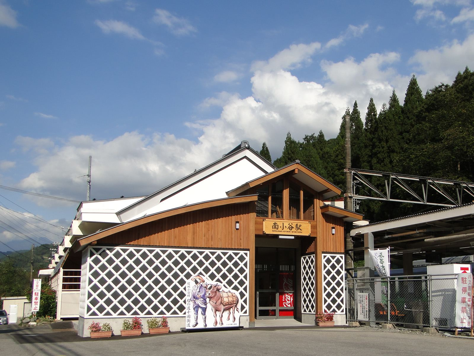 Front View of South Otari Station.